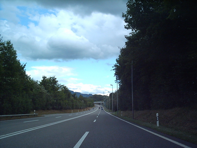 A52 motorroad. DF08 image.